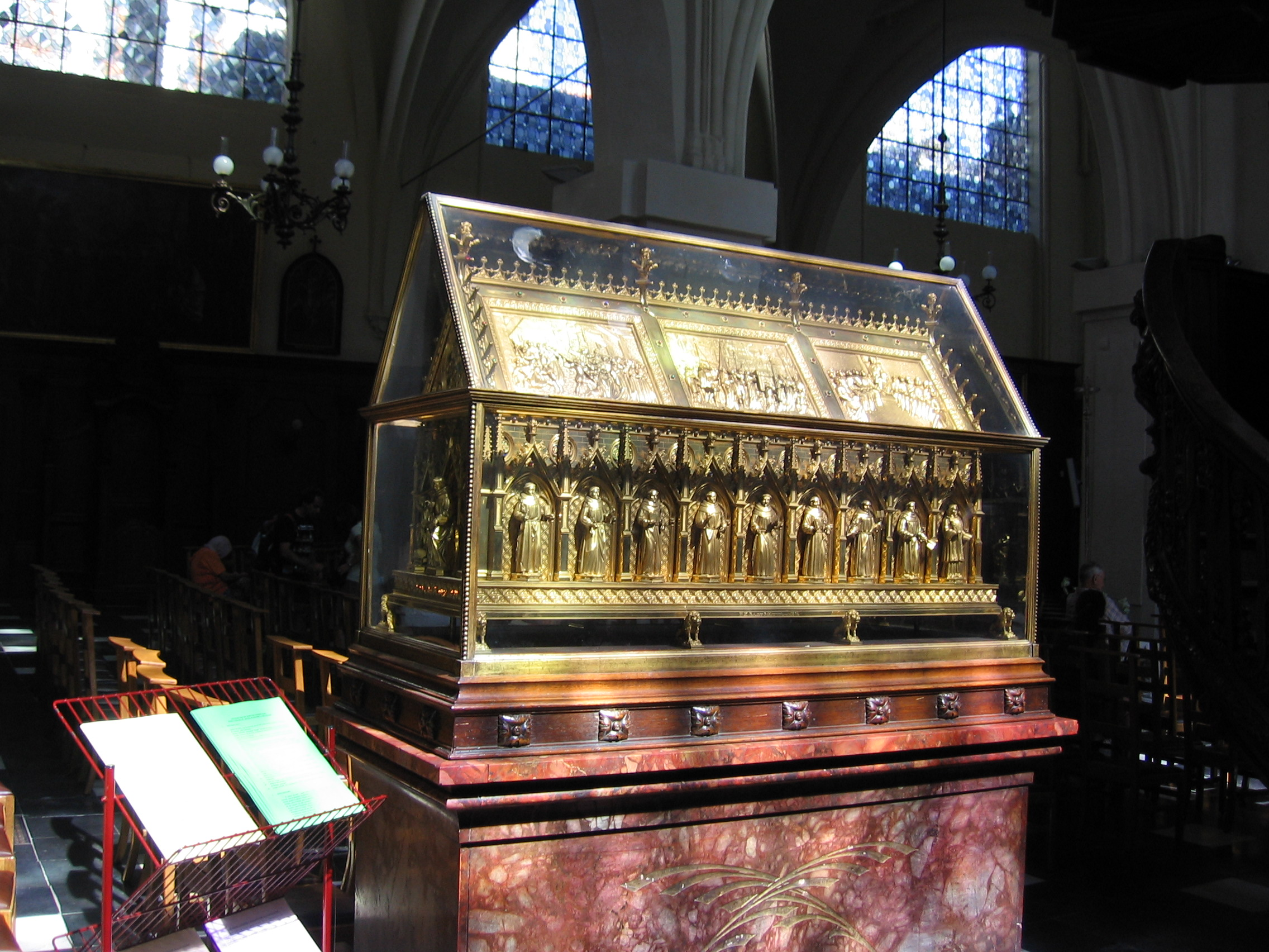 Chasse contenant les reliques des martyrs de Gorcum (se trouvant dans l'église Saint-Nicolas, à Bruxelles)